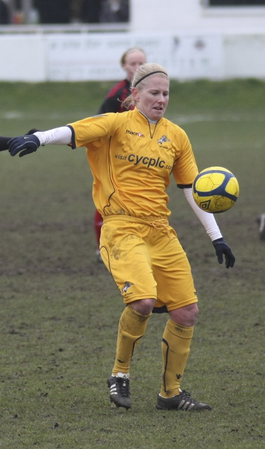 ex-Matilda Alicia 'Eesh' Ferguson playing for Millwall Lionesses in the FA Women's Premier League Southern Division, March 2013